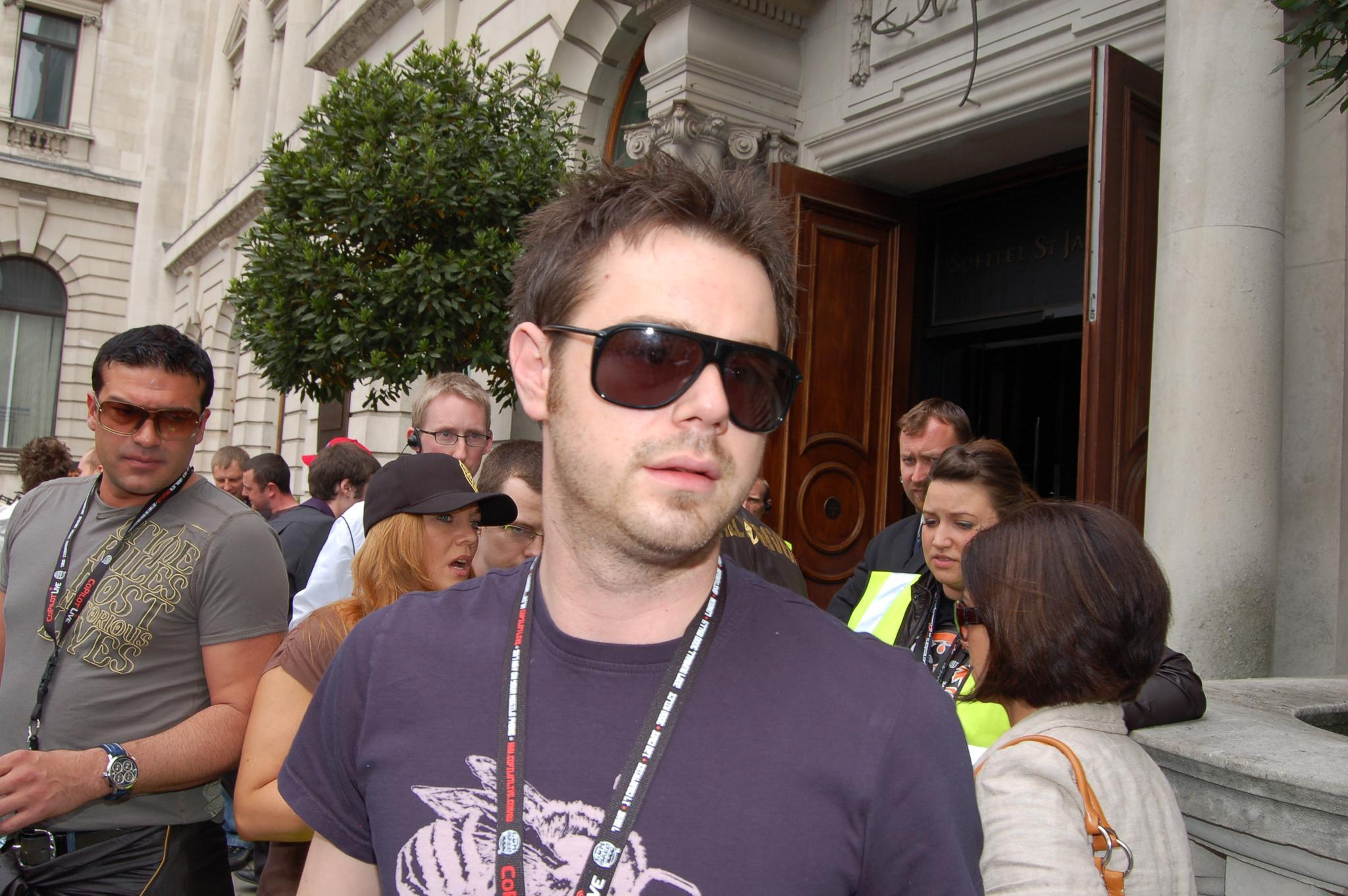 English Actor Danny Dyer at the Gumball 3000 Rally in London 2007